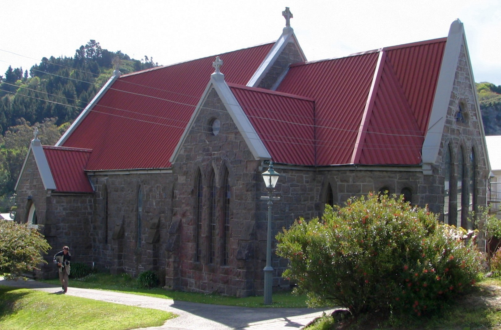 Holy Trinity Anglican Church, Port Chalmers, Dunedin, New Zealand. New Zealand Historic Places Trust Register number: 2320.